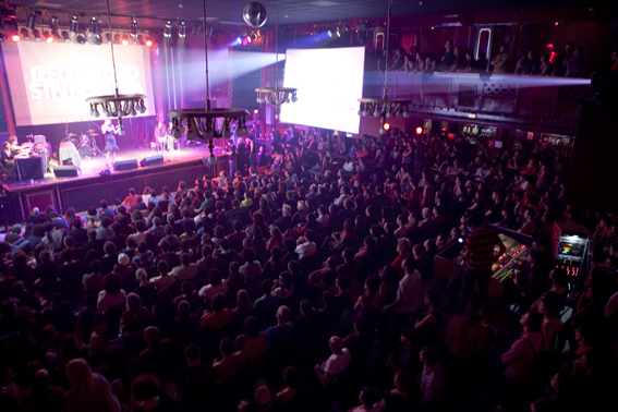 Oxcars 2009 in Barcelona. Photo of the venue: Sala Apolo